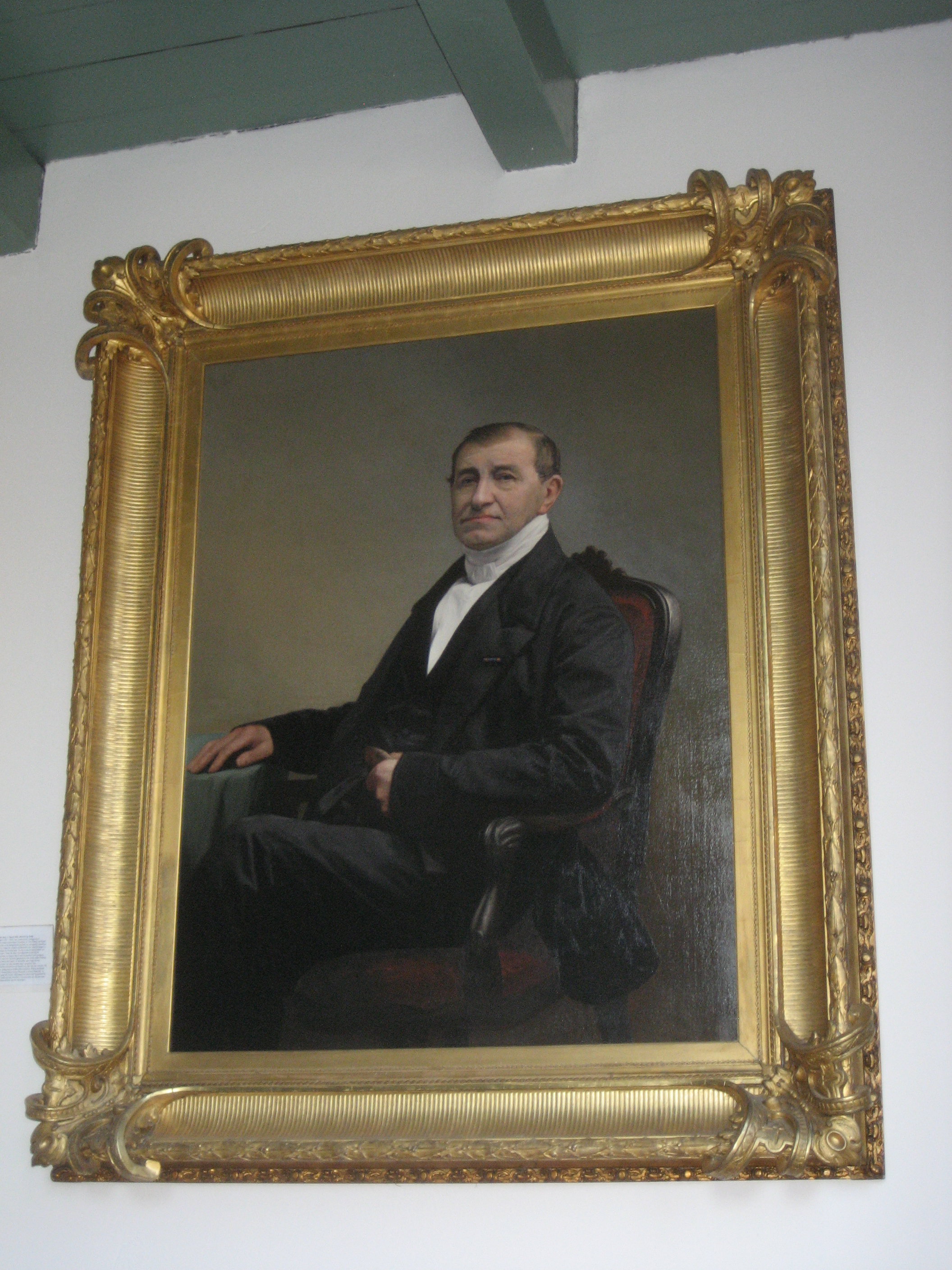 Portrait of Petrus de Raadt (post mortem) by Jacob Spoel (1820-1866). Painting made in 1865. Location 2015: Ambachts- en Baljuwhuis, Voorschoten (NL)